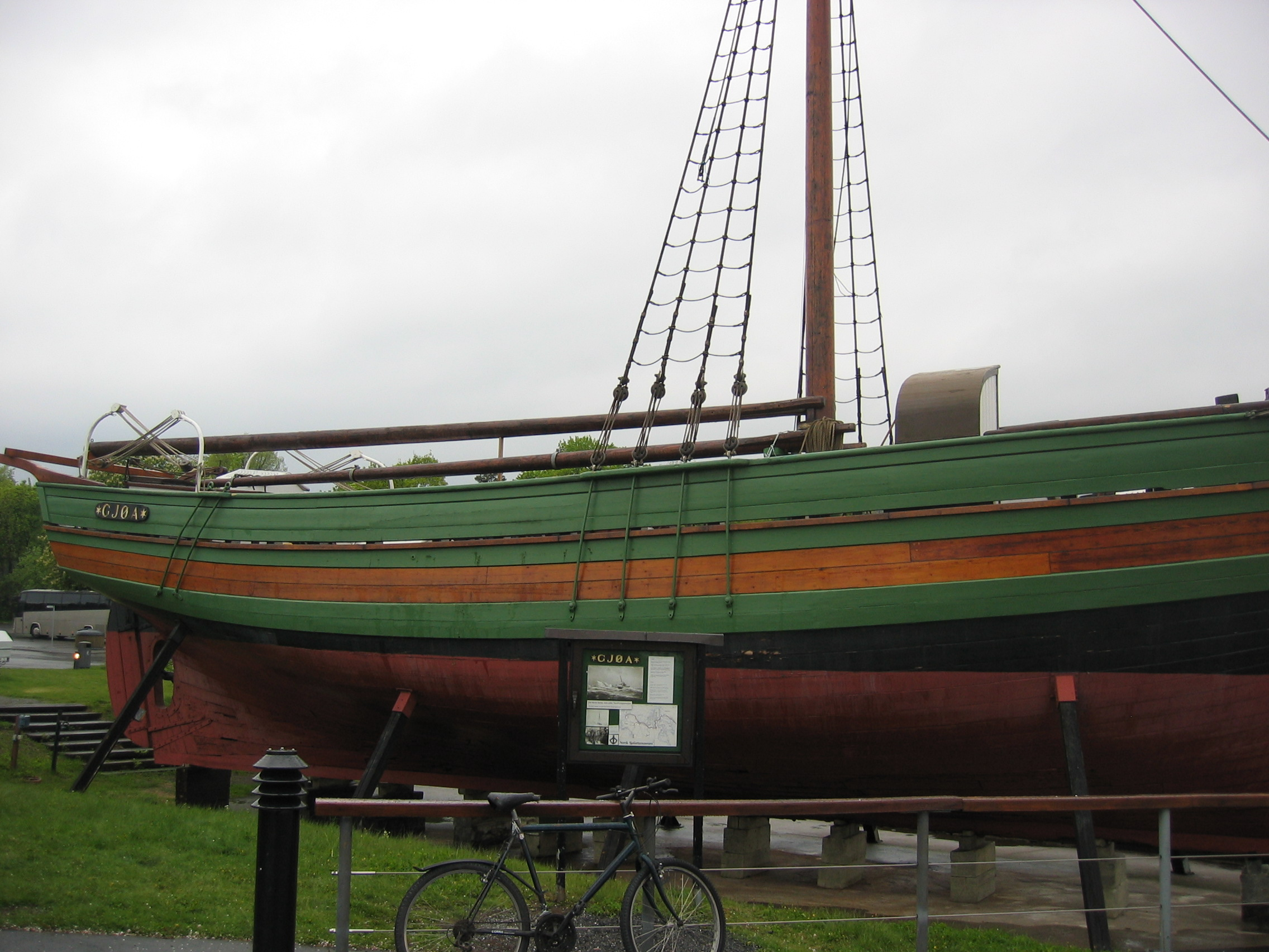 The Gjøa - The first ship to complete the Northwest Passage